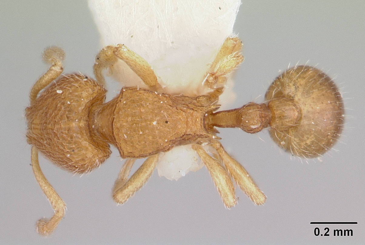 Dorsal view of ant Rogeria alzatei specimen casent0178167.